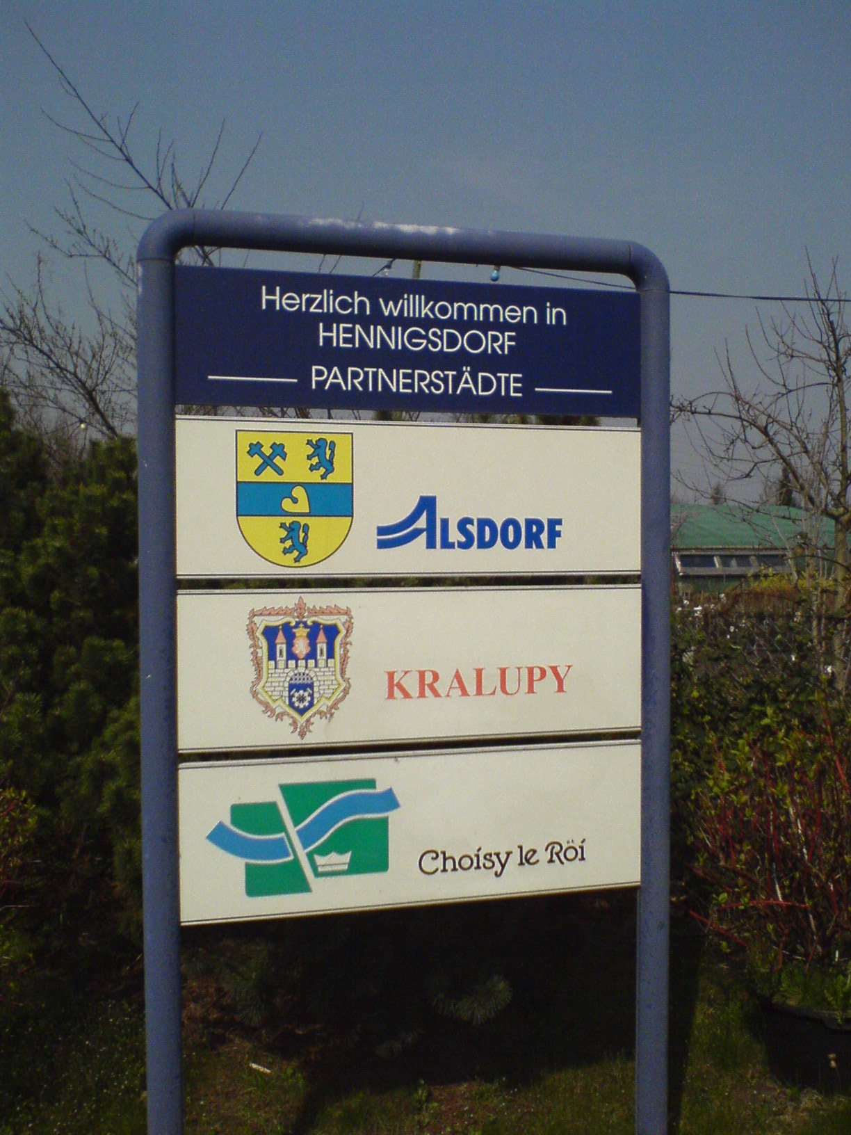 Sign at the entry of Hennigsdorf showing partner cities.